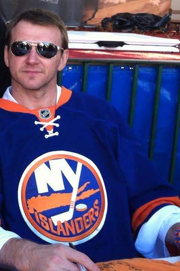 Evgeni Nabokov in October 2013